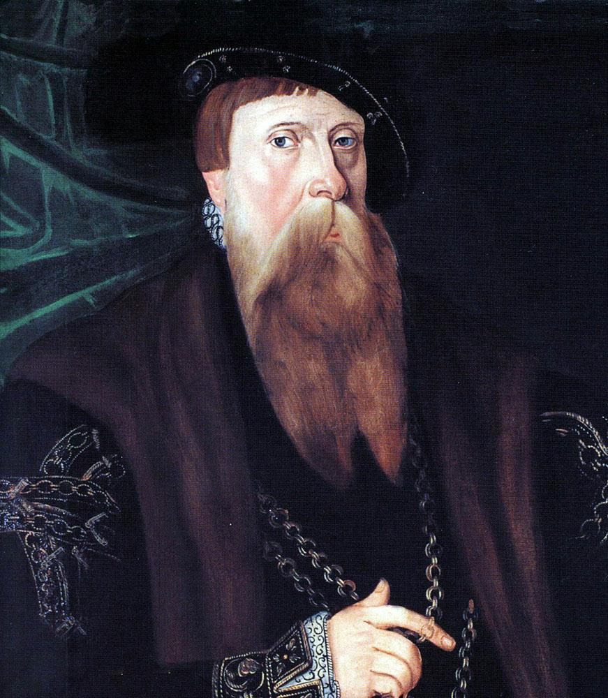 King Gustav I of Sweden (1496-1560)